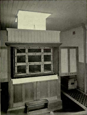 Lethal chamber for euthanasia in cat shelter founded in 1896 by a Mrs Morgan. Average of 300 cats received per week. 80% killed within 24 hrs. Estimated three quarters of a million cats in London, of which from 80,000 to 100,000 are homeless. Title: LETHAL CHAMBER, ROYAL LONDON INSTITITION AND HOME FOR LOST AND STARVING CATS. (Photo : Cassell & Company, Limited.)